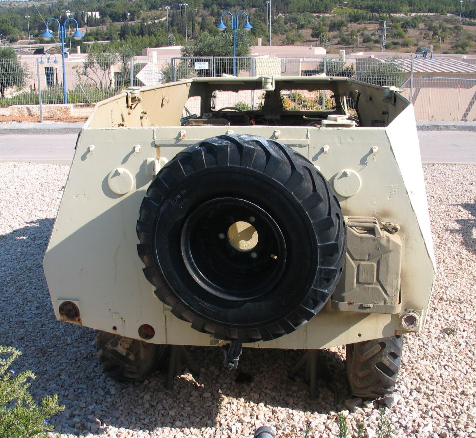 Description: BTR-152 APC in Yad la-Shiryon Museum, Israel. 2005. Source: Photo by me, User:Bukvoed